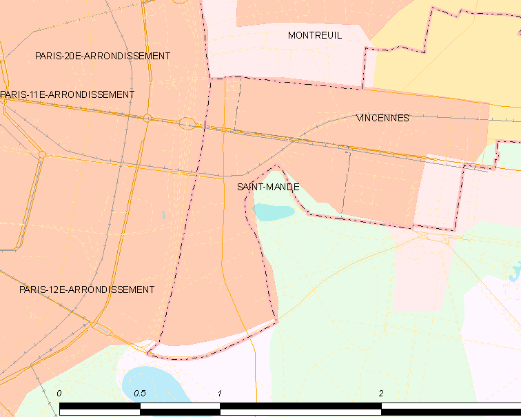 Map of French municipality Saint-Mandé